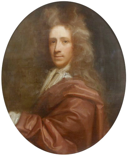 Portrait of Richard Waller(d. 1715) by Thomas Murray (1663 – 1734)